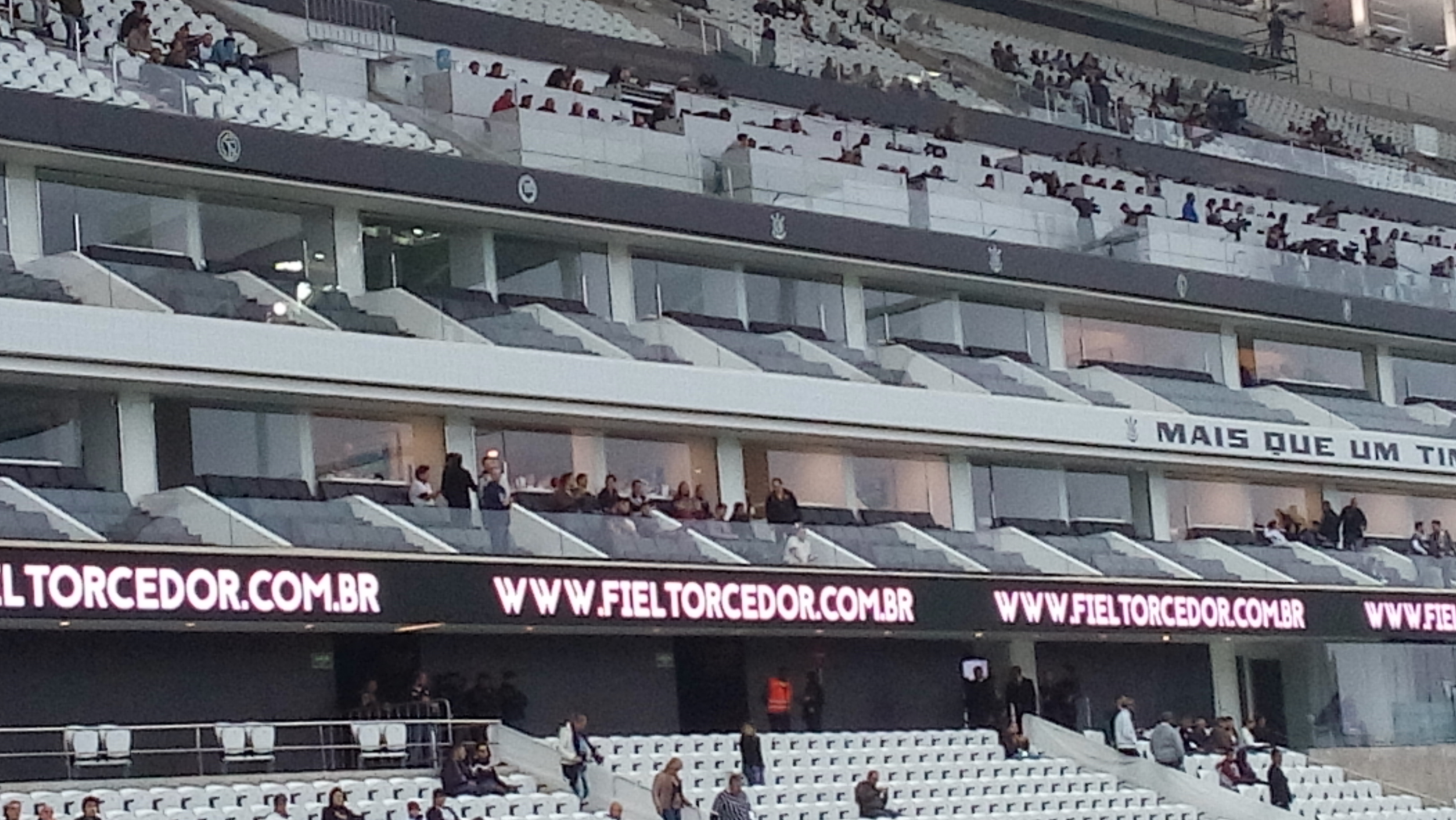 Tribunes of the Press and Cabins Arena Corinthians, located in the West